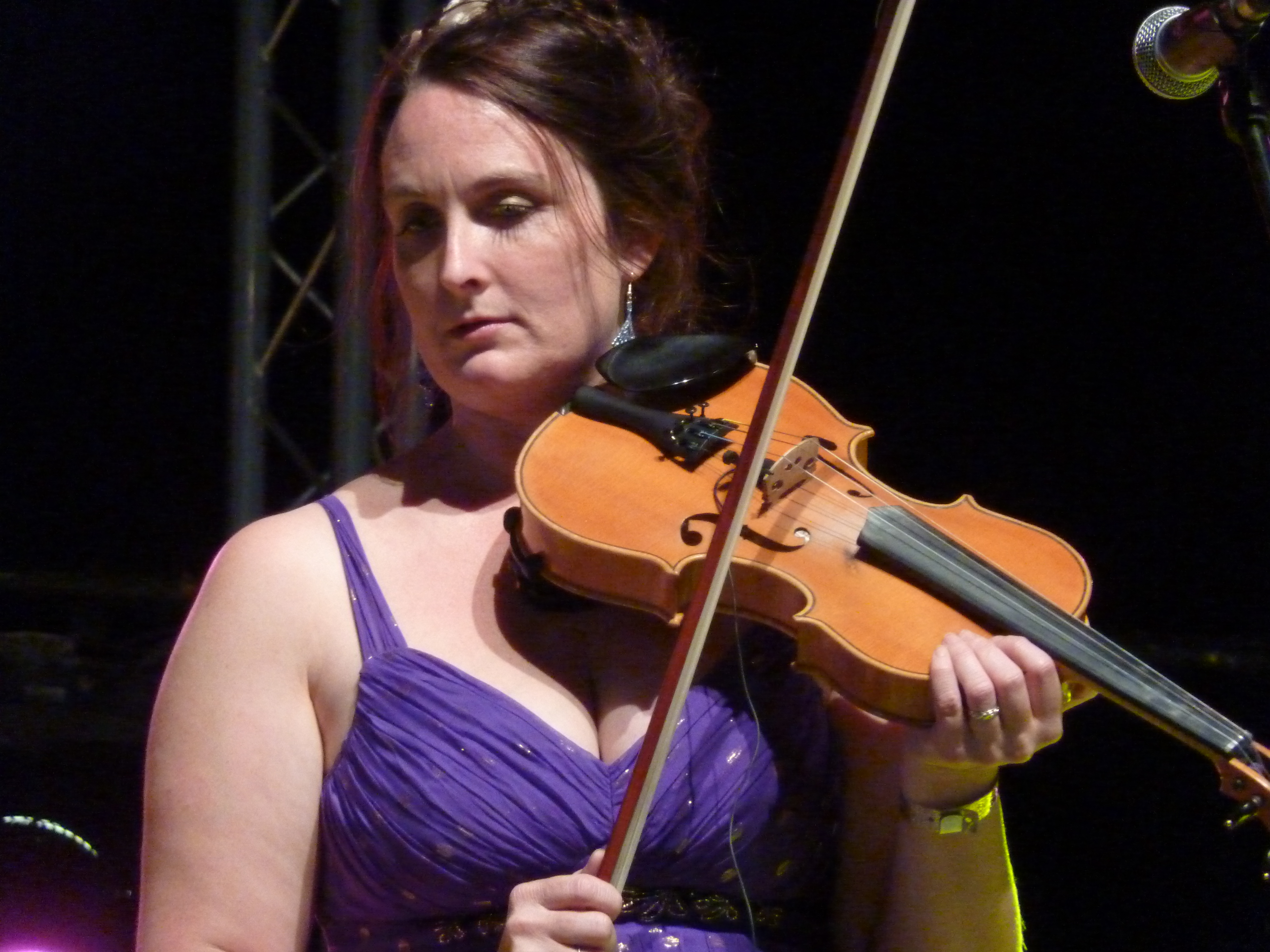 English folk singer and fiddler Nancy Kerr on stage at the 2010 Shrewsbury Folk Festival.